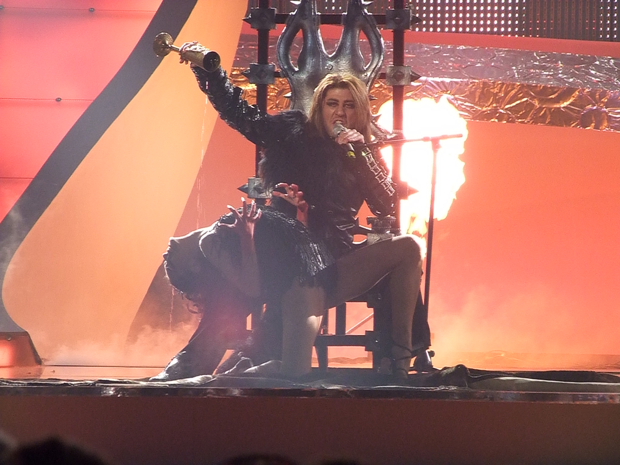 Eurovision Song Contest 2008 final Azerbaijan: Elnur & Samir - Day after day